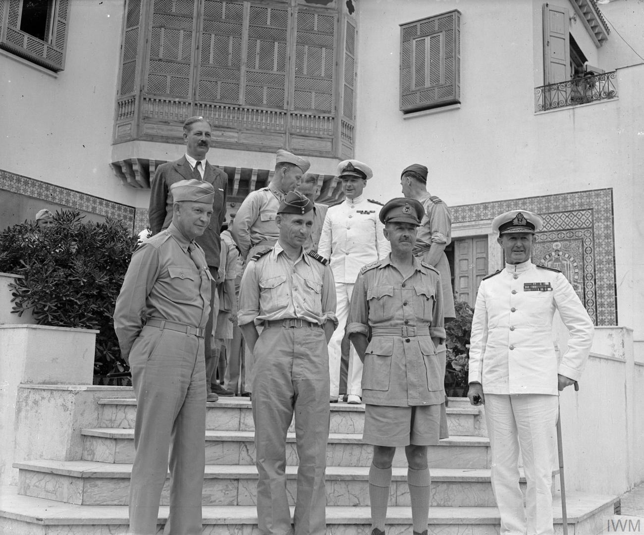 The Campaign in Sicily 1943 Personalities: The Allied commanders of the campaign photographed in Tunisia. Front row, left to right: The Commander-in-Chief, General Dwight Eisenhower, The Air Commander-in-Chief, Mediterranean Air Command, Air Chief Marshal Sir Arthur Tedder; the Deputy Commander-in-Chief and Ground Forces Commander, General Alexander and the Naval Commander-in-Chief, Mediterranean, Admiral of the Fleet, Sir Andrew Cunningham. In the back row are the Hon. Harold MacMillian MP, Brigadier General W B Smith and Air Vice Marshal H E P Wigglesworth (on the extreme right).